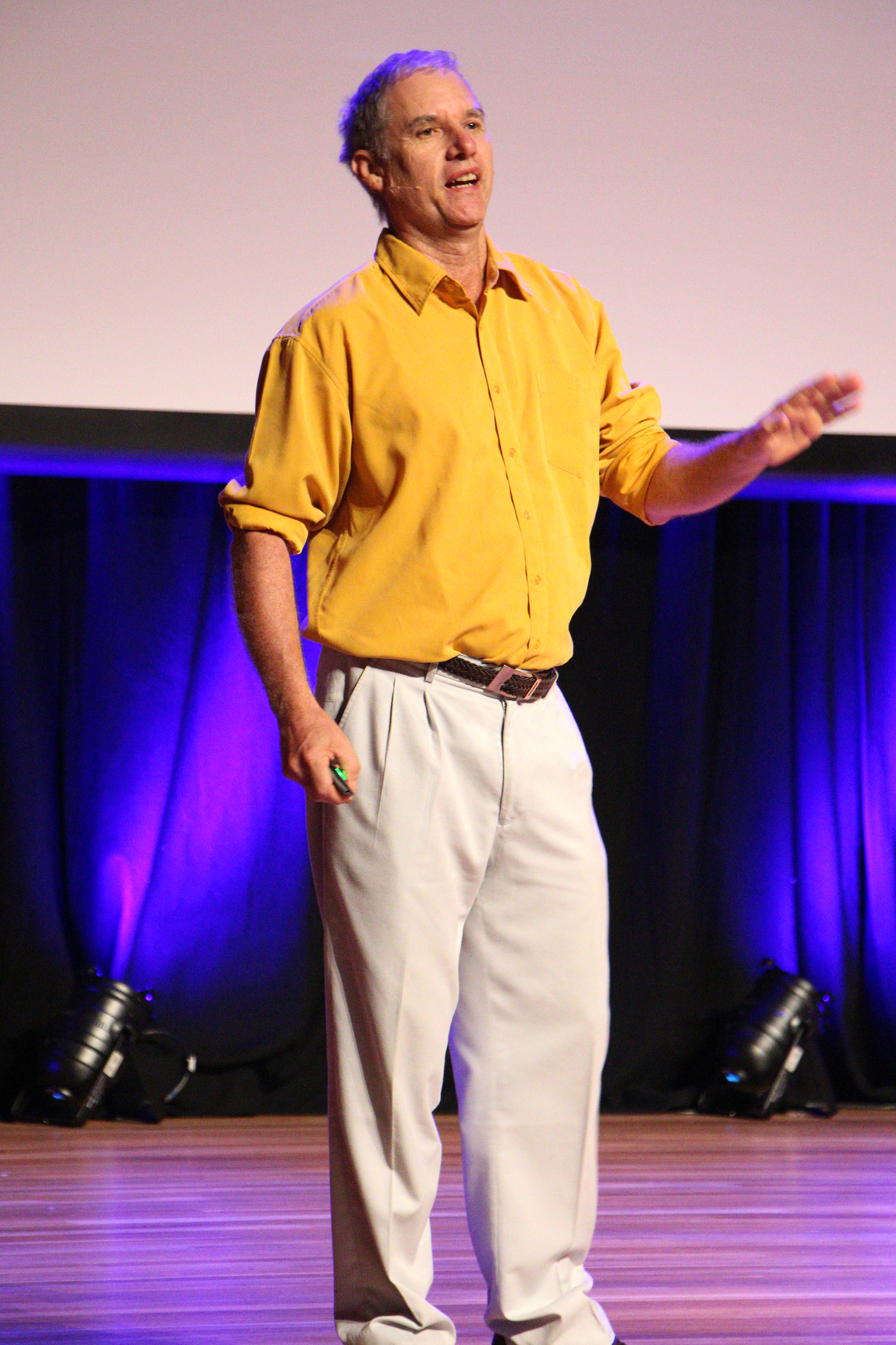 Australian Skeptics Convention held in Sydney, November 2014. Peter Hadfield speaking on "TV Tricks of the Trade".